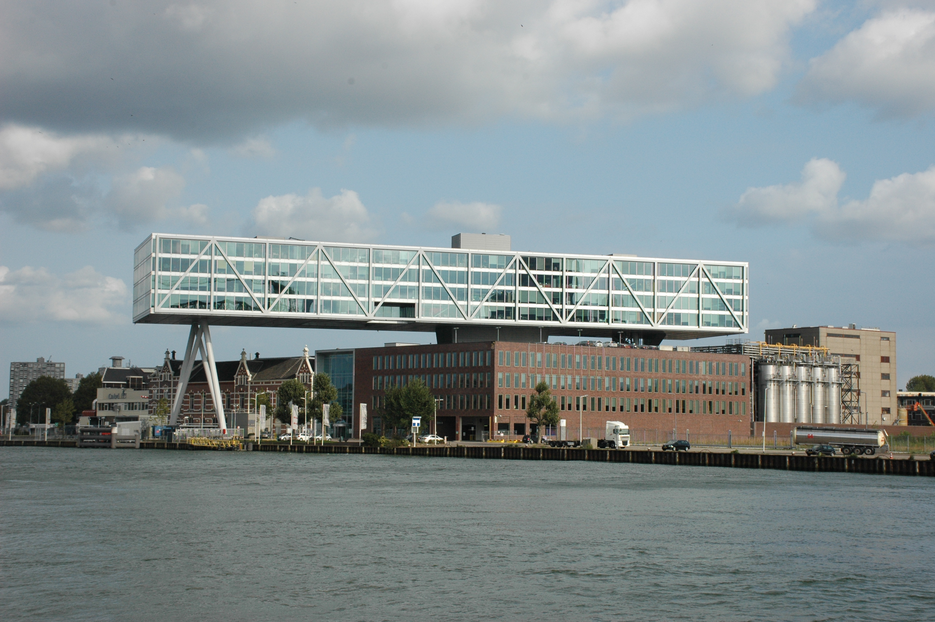 Unilever office building "The Brug", Nassaukade, Rotterdam, The Netherlands